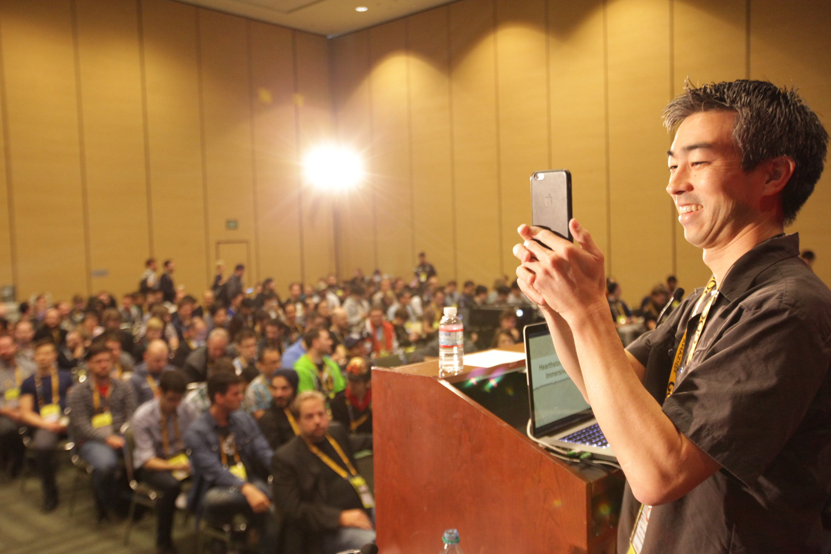 Hearthstone: How to Create an Immersive User Interface Derek Sakamoto | Senior User Interface Designer, Blizzard Entertainment Location: Room 3020, West Hall Date: Wednesday, March 4 Time: 11:00am - 11:30am